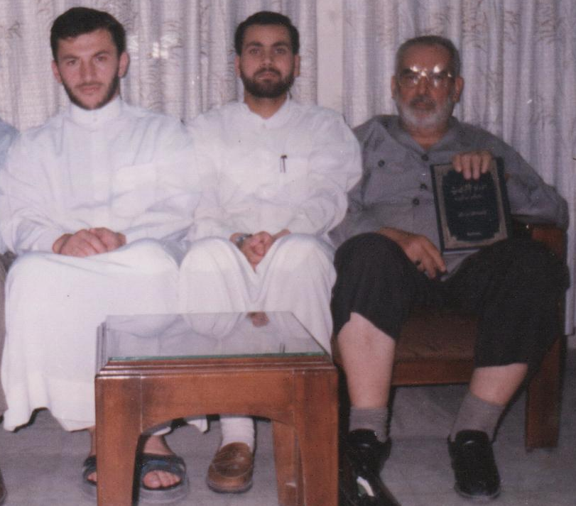 Sheikh Murtaza Dagestani and Mustafa Khinn